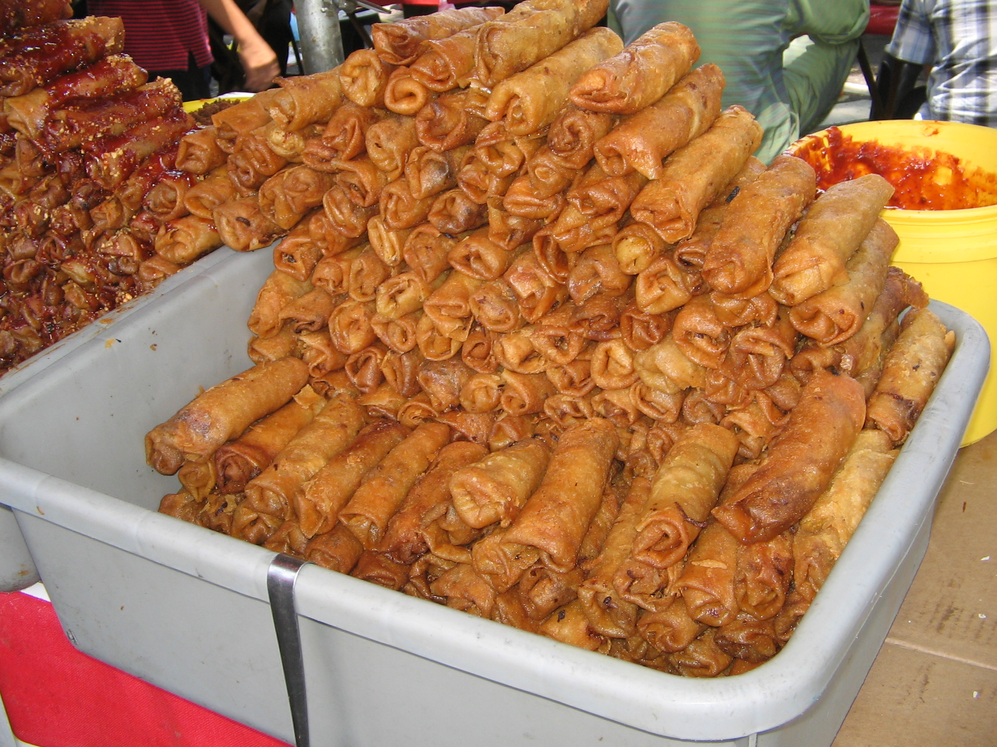 Popia goreng (deep-fried popiah), a type of spring roll from Malaysia.